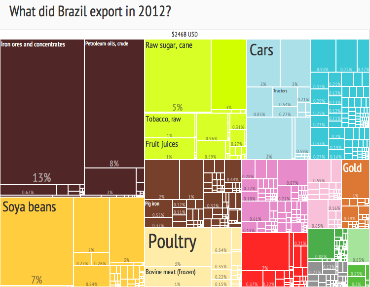 2012 Brazil Products Export Treemap